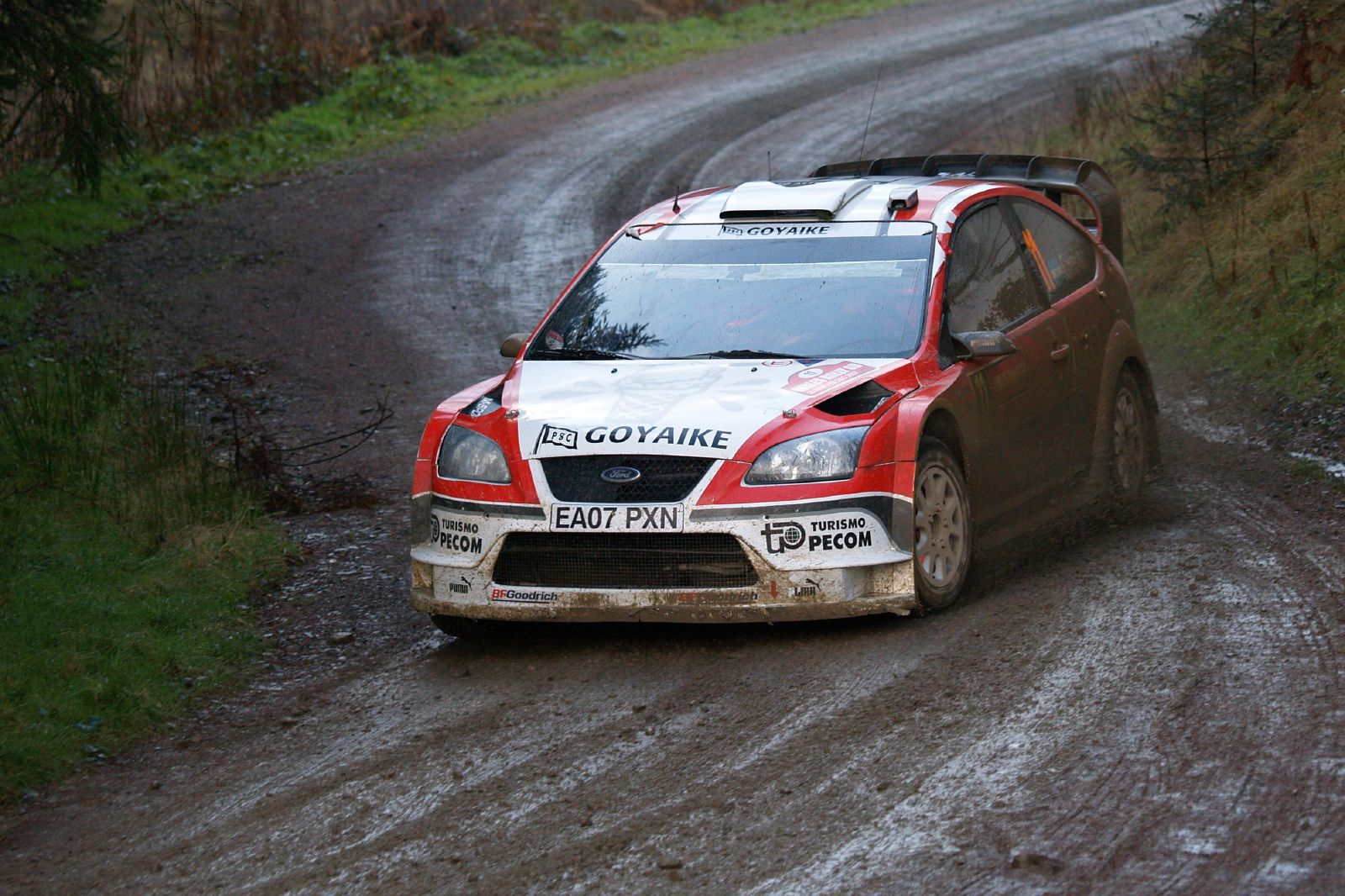 Luís Pérez Companc driving his Ford Focus RS WRC 06 during 2007 Wales Rally GB.